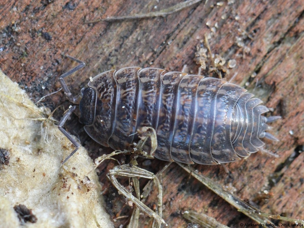 Trachelipus rathkii